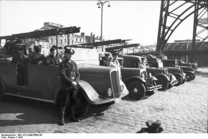 During a German Admiral Wilhelm Marschall inspection in Bordeaux, quai des Chartrons. In the background, the transporter bridge pier (destroyed the same year by German troops) and a warehouse of the French Cie Gle Transatlantique.